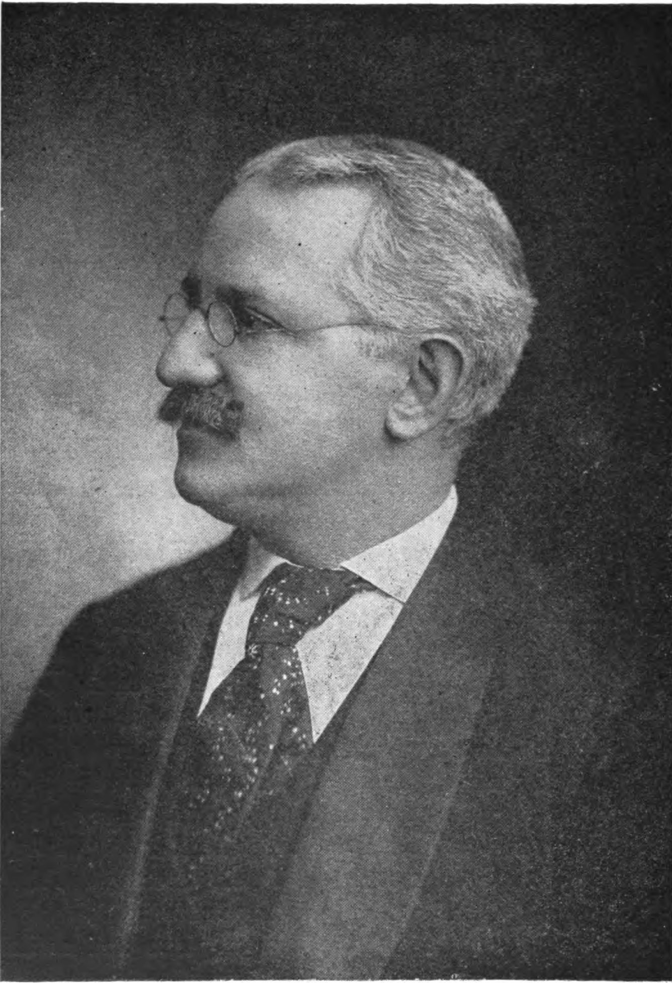 Photograph of pianist and composer Emil Liebling, from the 1900 The Great in Music, vol. 1, p. 196.